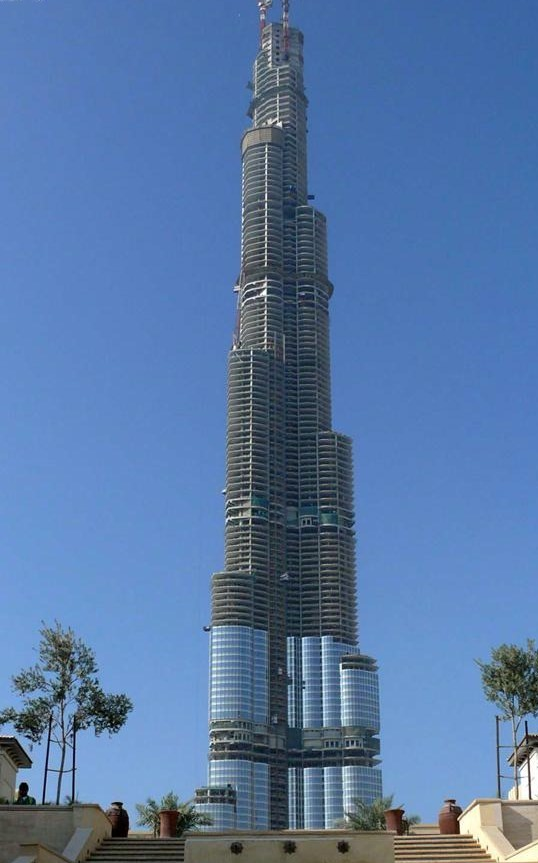 This is a photo showing the construction of the Burj Dubai, located in Downtown Dubai in Dubai, United Arab Emirates, on 10 December 2007. The image was taken from the Old Town, a district in Downtown Dubai.